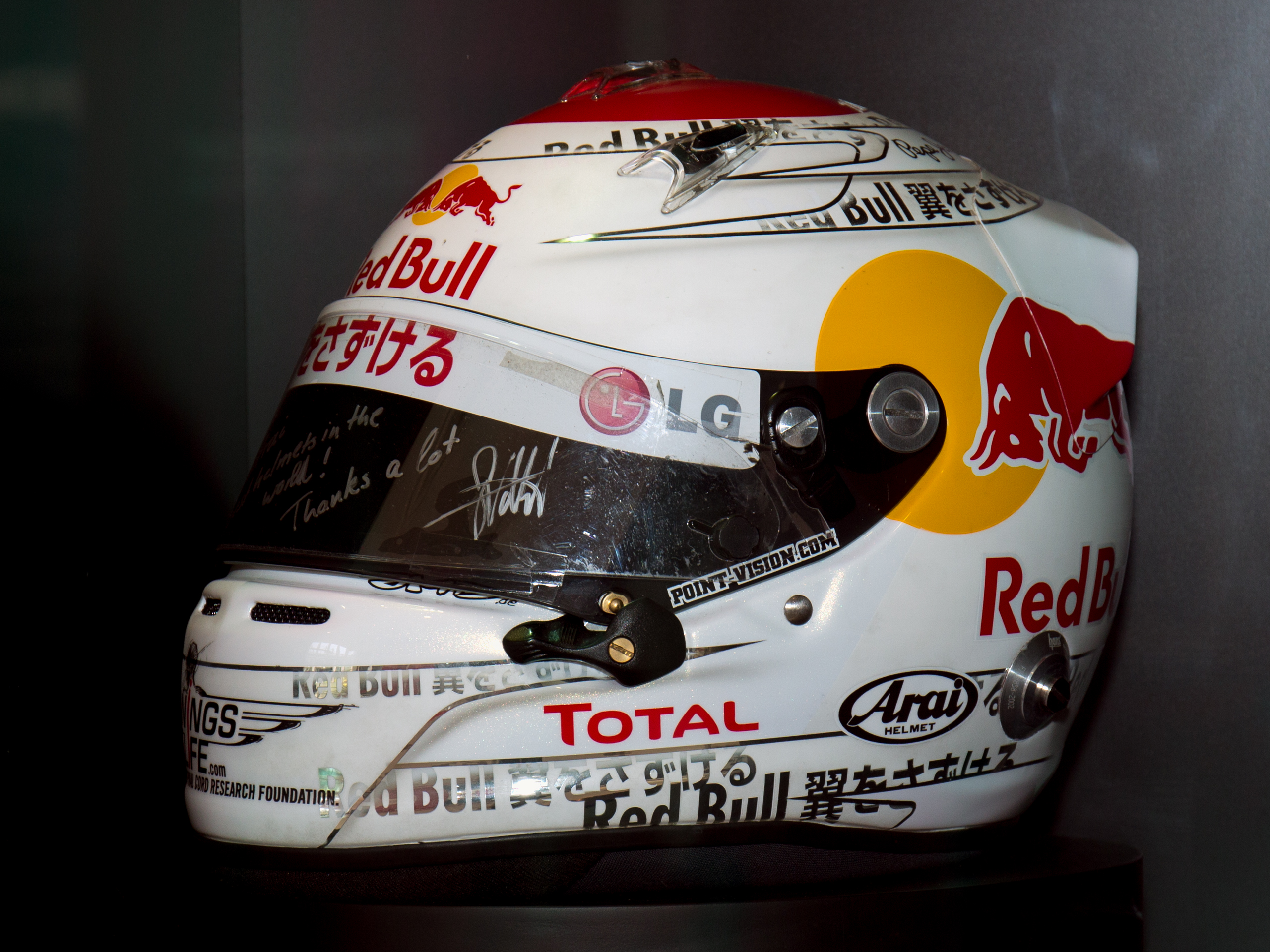 Sebastian Vettel's 2010 Japanese GP helmet